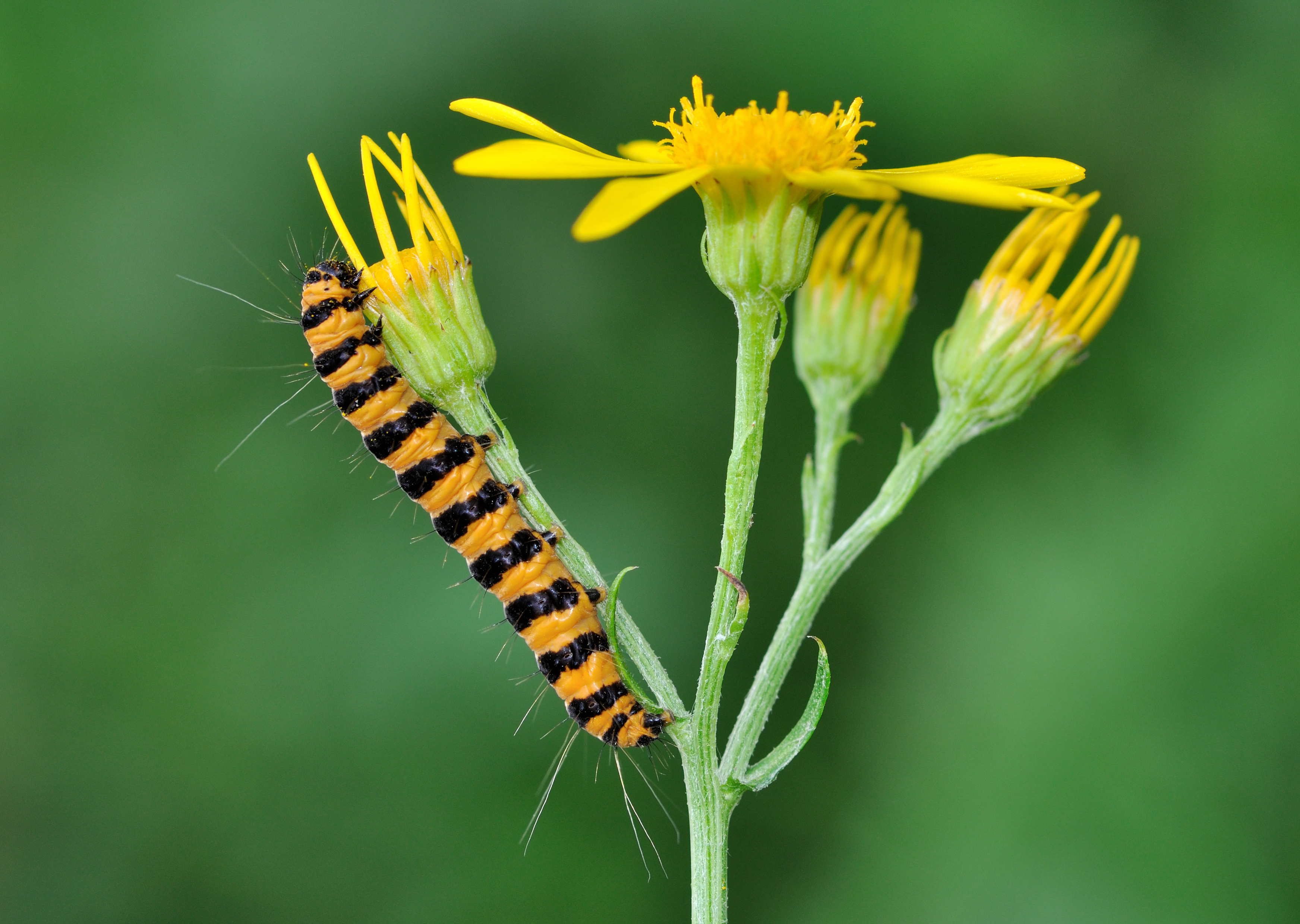 Caterpillar of a Cinnabar Moth (Tyria jacobaeae) on Ragwort (Jacobaea vulgaris) at a retention basin in Ahlen, Germany.